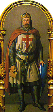 Theobald I of Navarre